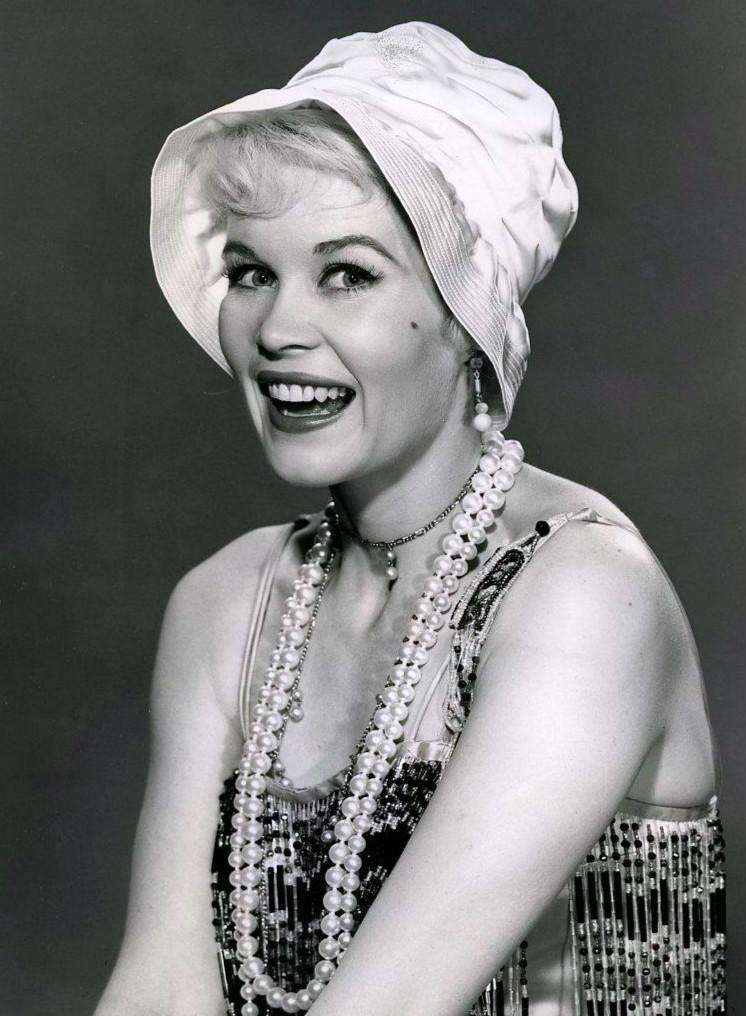 Photo of Dorothy Provine as Pinky Pinkham from the television program The Roaring 20's.